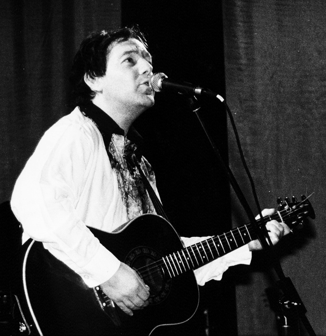 Songwriter Paul Roland live in Bremen, Germany, October 1995